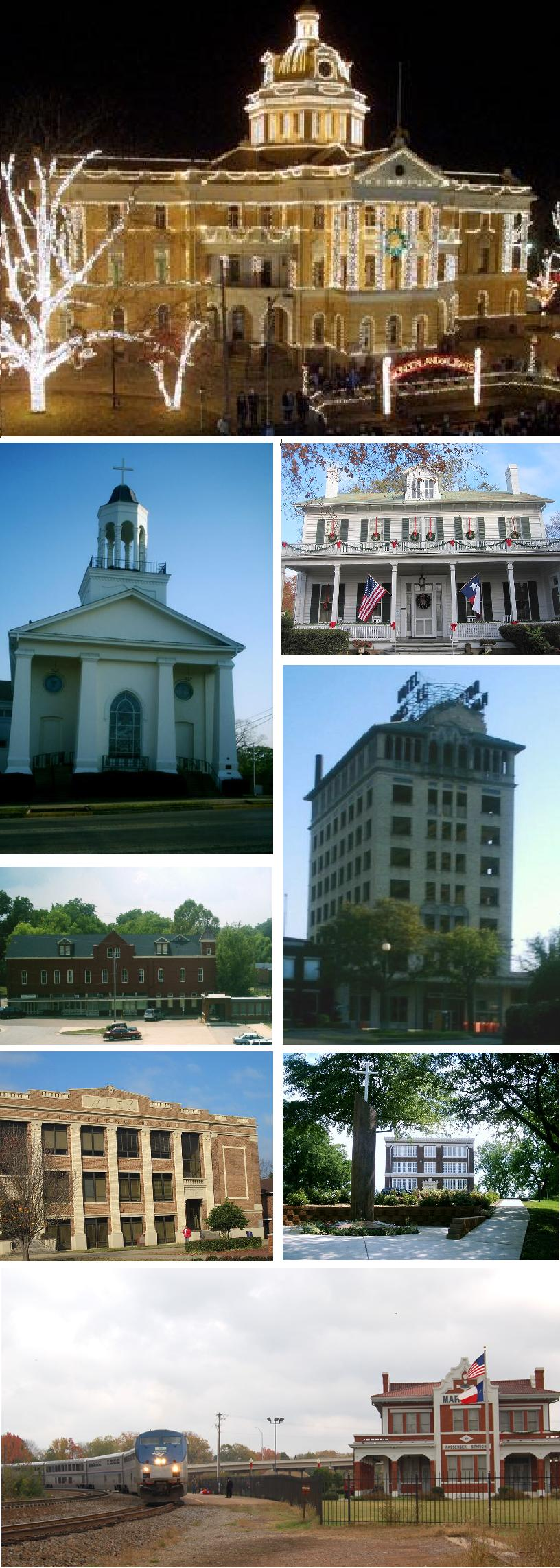 Clockwise: Old Courthouse, Starr Home, Hotel Marshall, ETBU, Depot, Wiley, Ginnocho, 1st Methodist